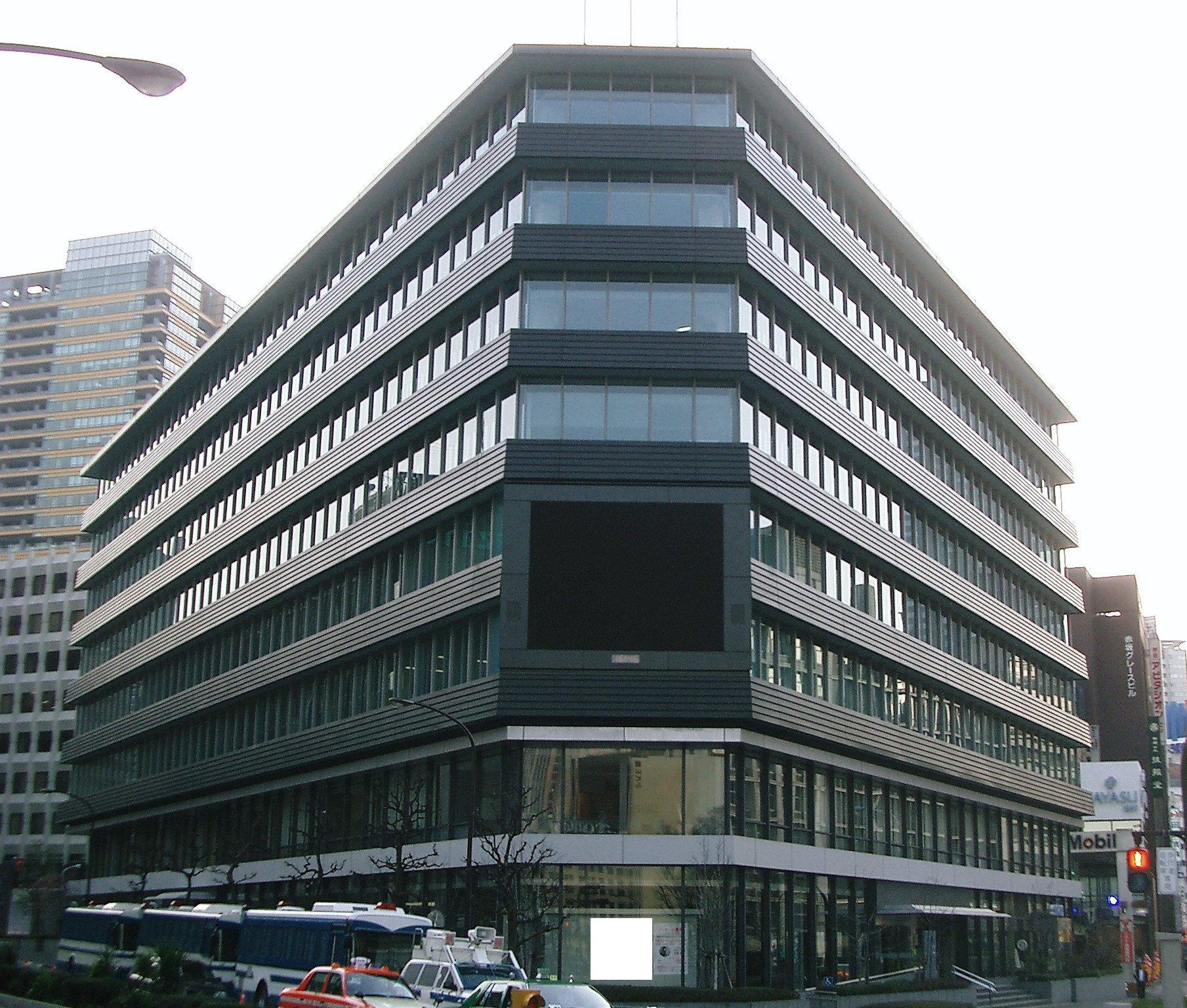 the Nippon Foundation 日本財団